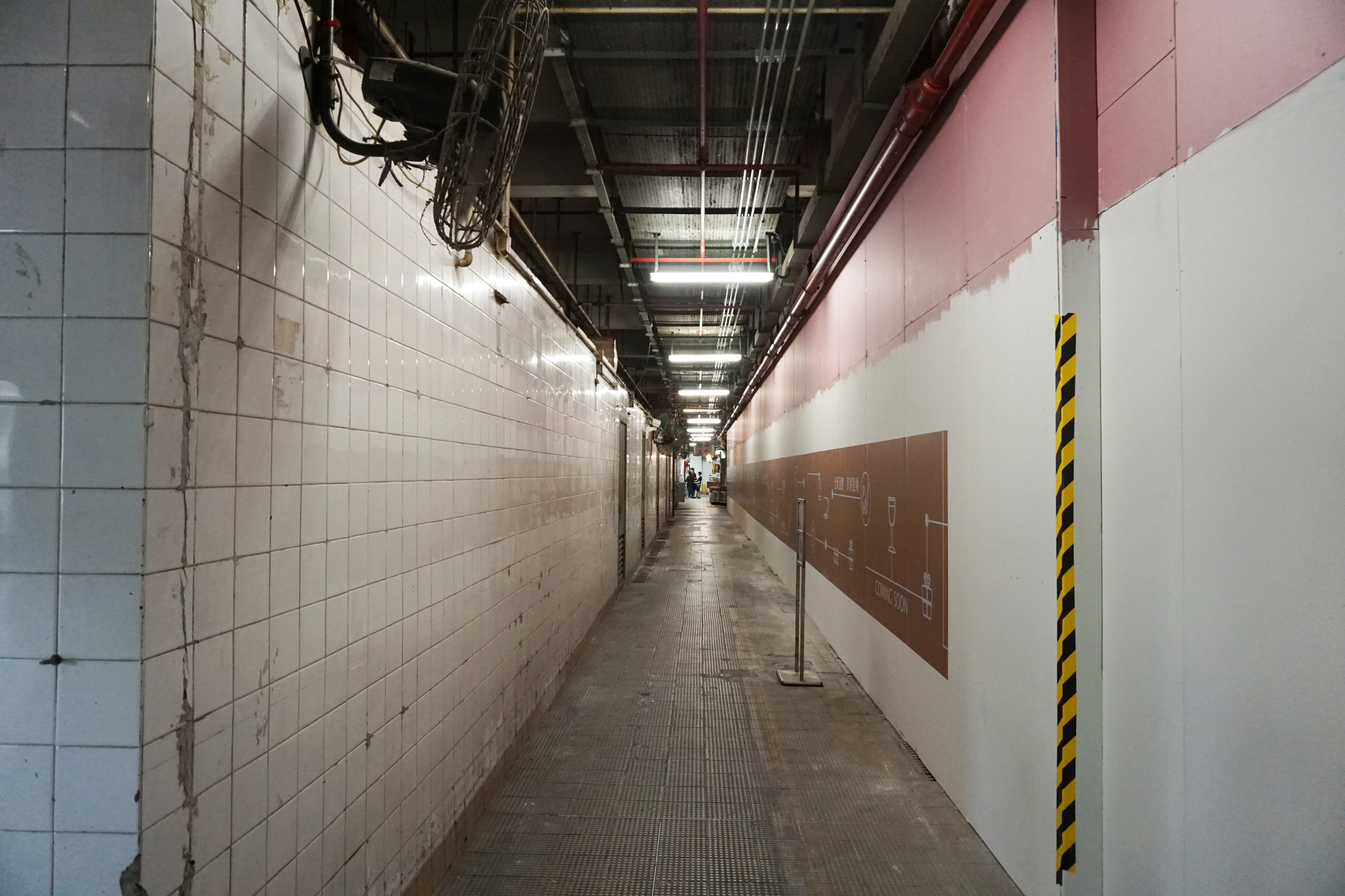 Fu Shin Market in Tai Po, Hong Kong.